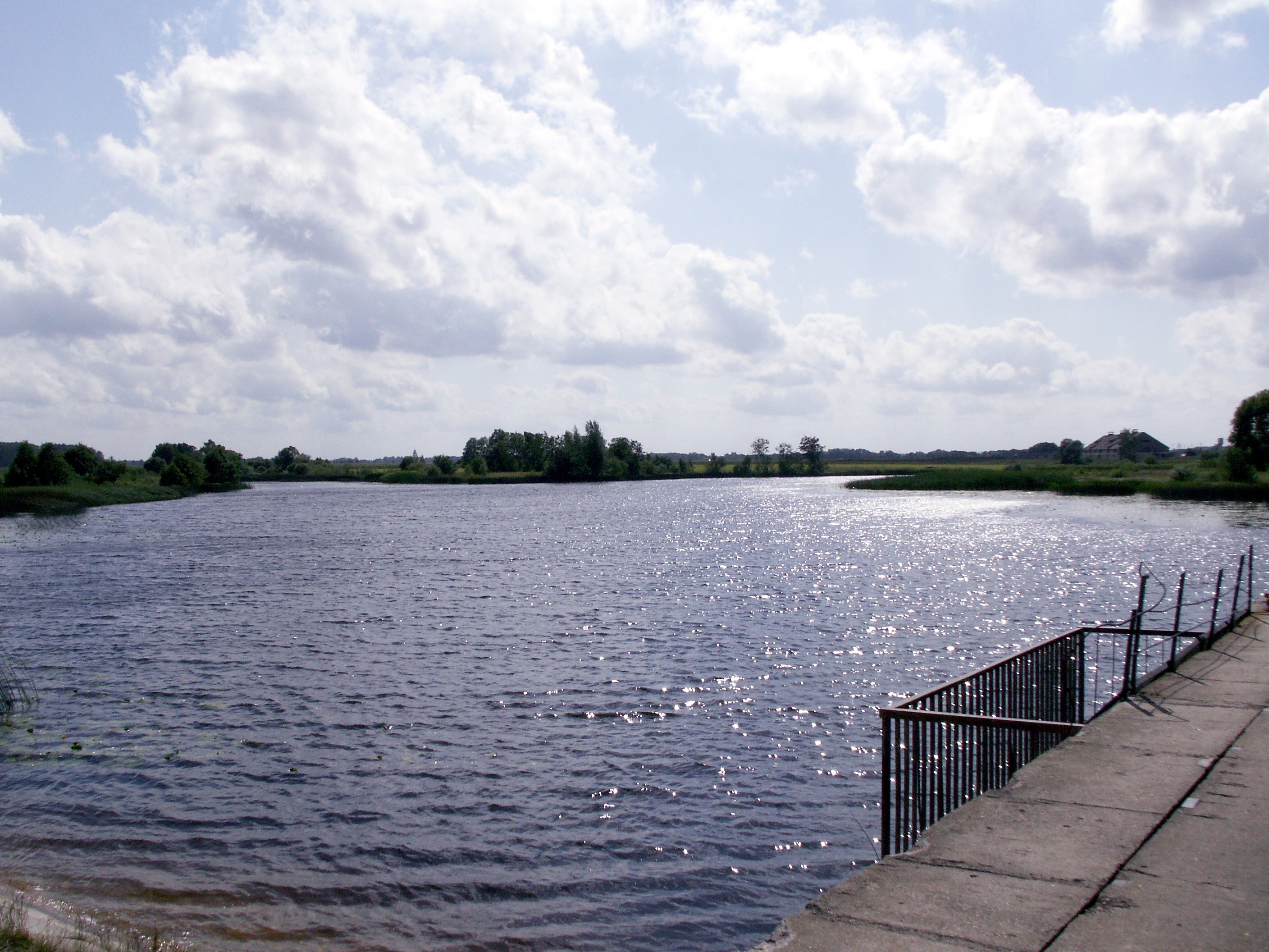 Kruoja river near Bitaičiai, Pakruojis district, Lithuania